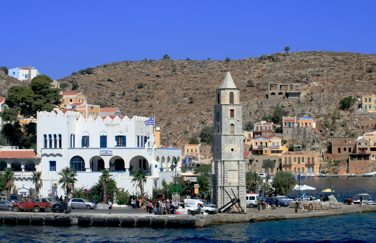 Small Greece town Sími on the Sími island Date=2007-08-25 Author= Karelj